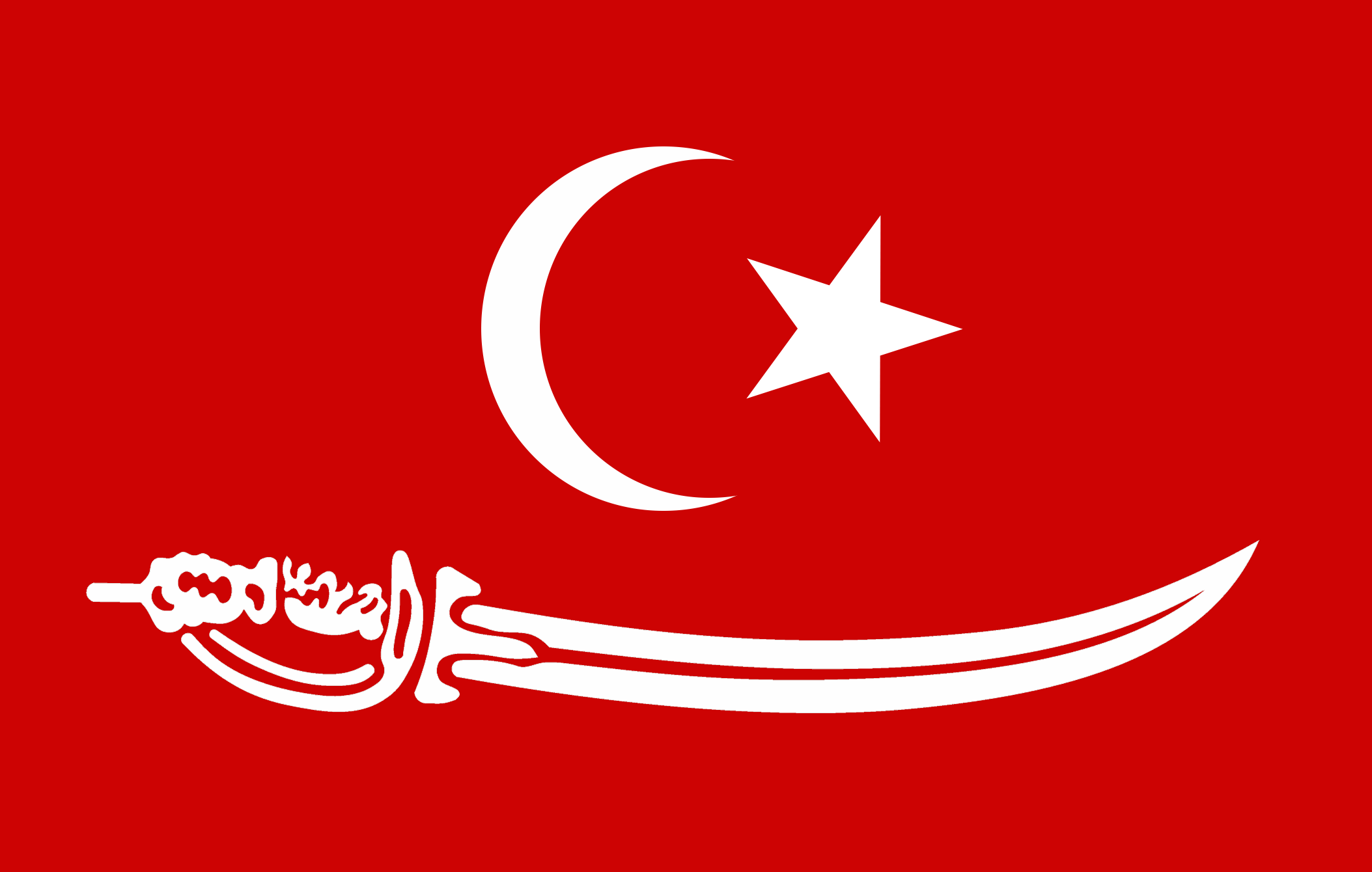 Flag of the Aceh Sultanate - Alam Peudeung